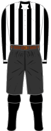 Newcastle United homekit 1894-97